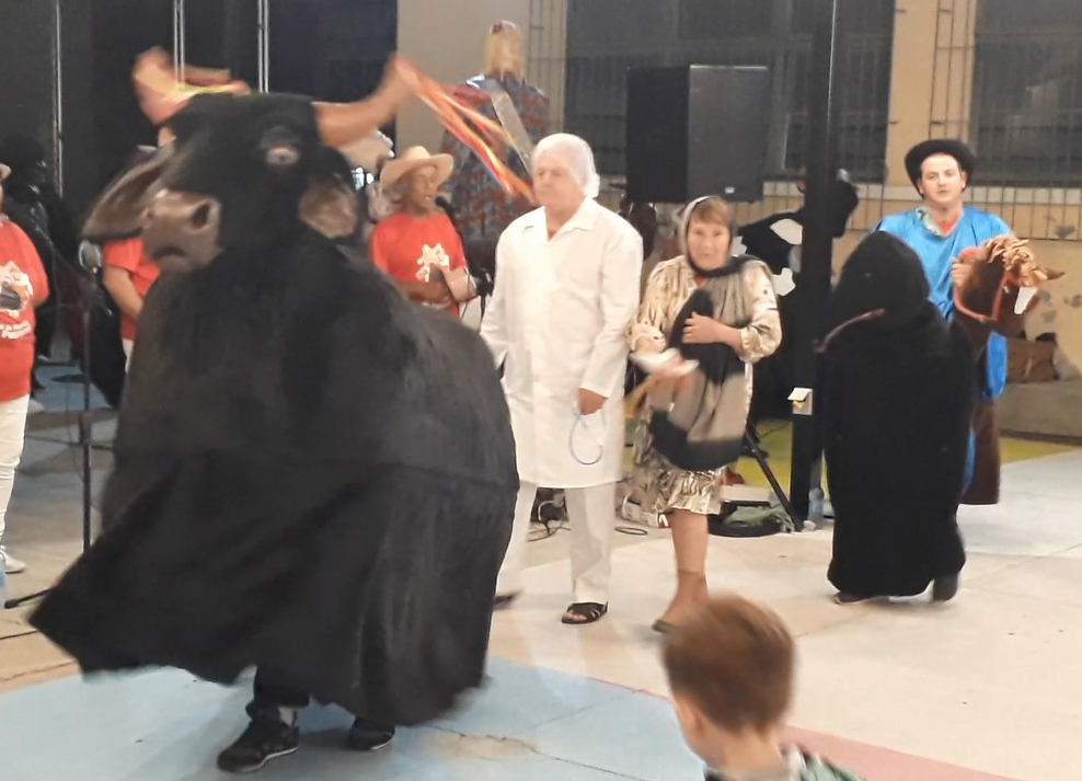 Public presentation of the brazil's folkloric group named "Boi-de-mamão do Bairro Pantanal" of the city of Florianópolis, southern Brazil.